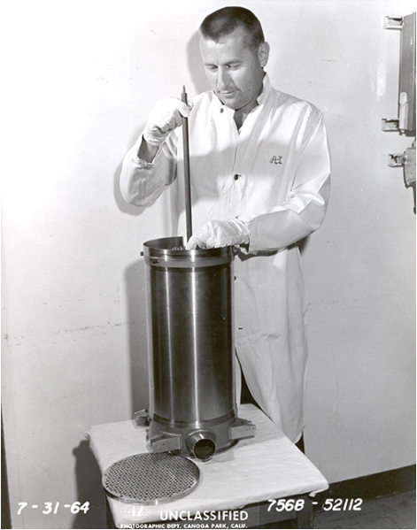 Assembly of the Systems Nuclear Auxiliary Power (SNAP) nuclear reactor core.